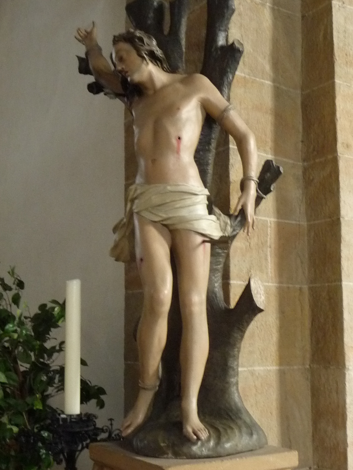 inside the catholic church of Niederkirchen (Rhineland-Palatinate), Germany